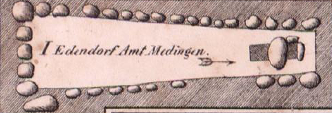 Megalithic tomb near Edendorf, Sprockhoff-No. 747